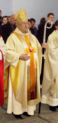 Karl Lehmann with white chasuble